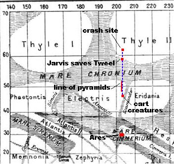 This is a section of Giovanni Schiaparelli's 1886 map of Mars modified to show the locations of events in Stanley G. Weinbaum's (†1935) short story A Martian Odyssey (1934). The map was created by Johnny Pez on June 4, 2006. copyright on Schiaparelli's original map has expired, copyright on Weinbaum's works have expired, too, and Johnny Pez releases his modified version to the public domain.